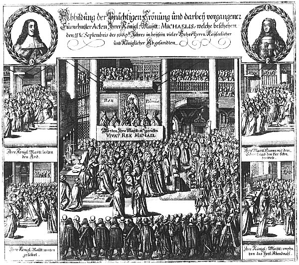 Coronation of the Polish KIng Michael I Wiśniowiecki 1669